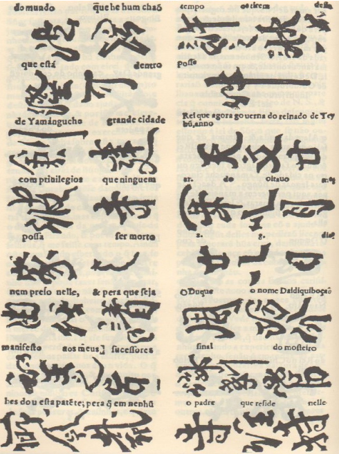 Translator auxiliary for the Portugueses Jesuits in the 16th century, japonese to portuguese